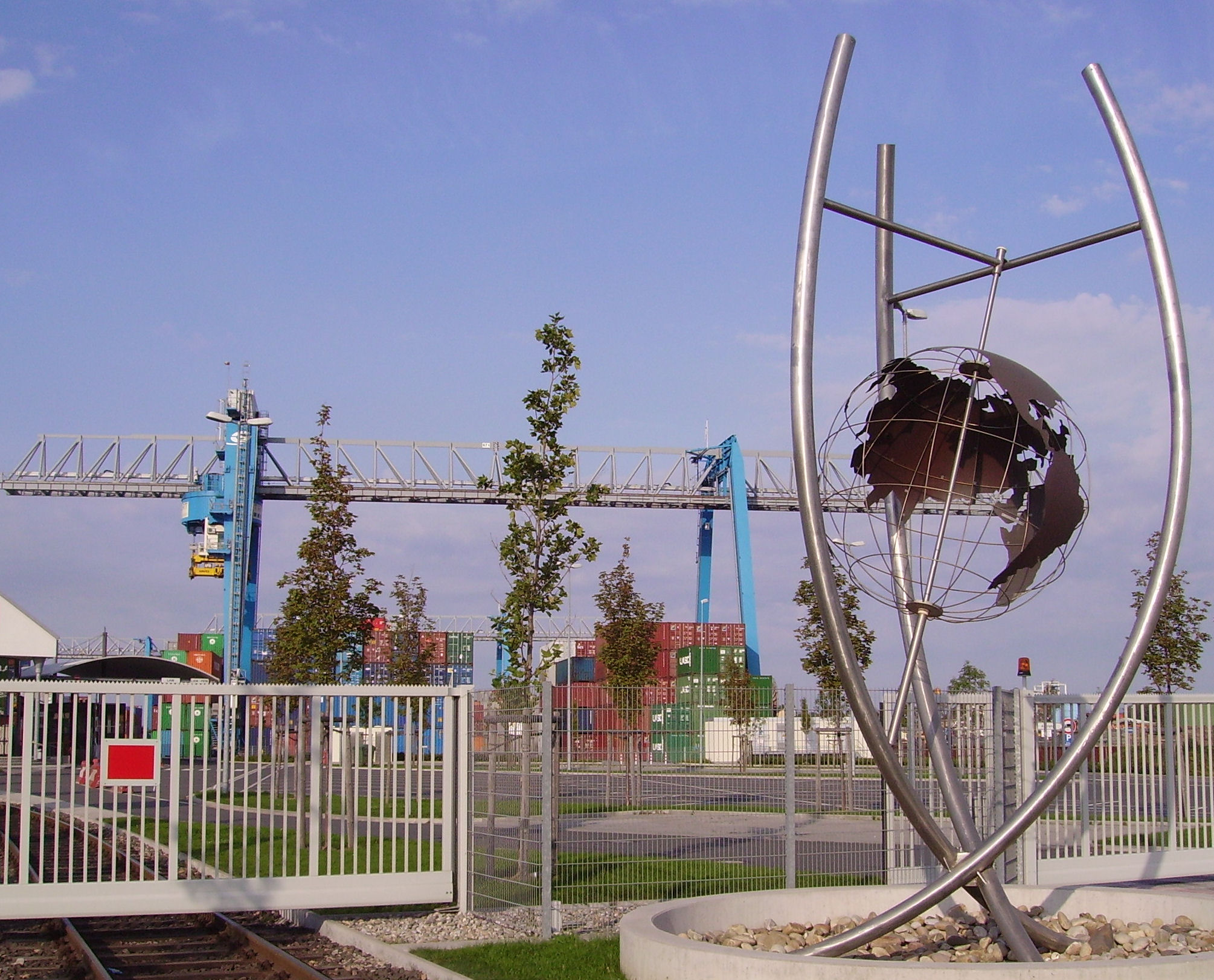 harbour of Ludwigshafen, Germany